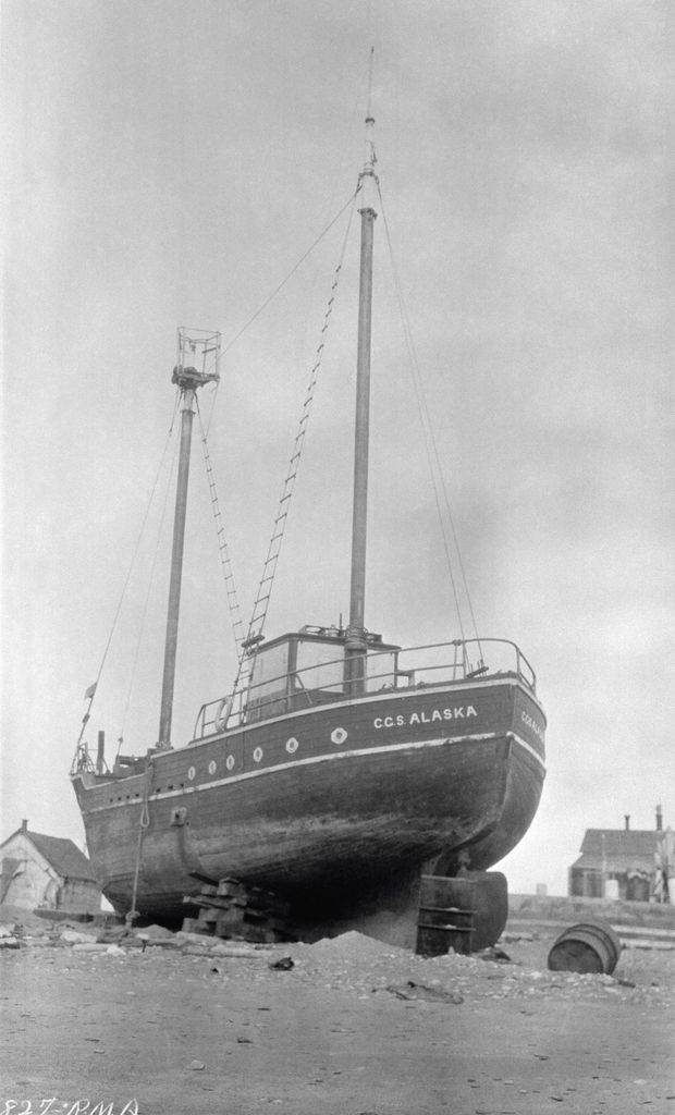 CGS Alaska pulled onto beach, view of stern of schooner and name, Nome, Alaska. After the completion of the CAE expedition.